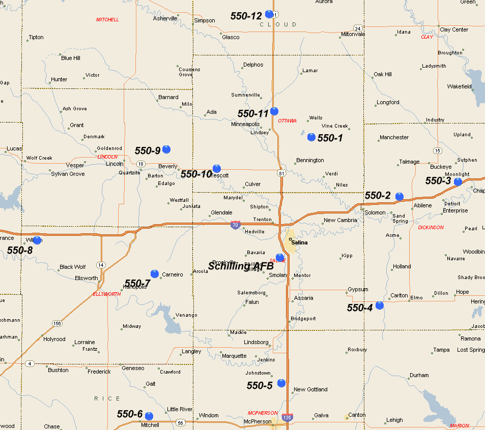 550th Strategic Missile Squadron - SM-65F Atlas Missile